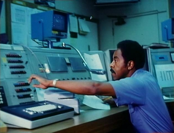 LACoFD Dispatcher Sam Lanier (uncredited voice of dispatcher)